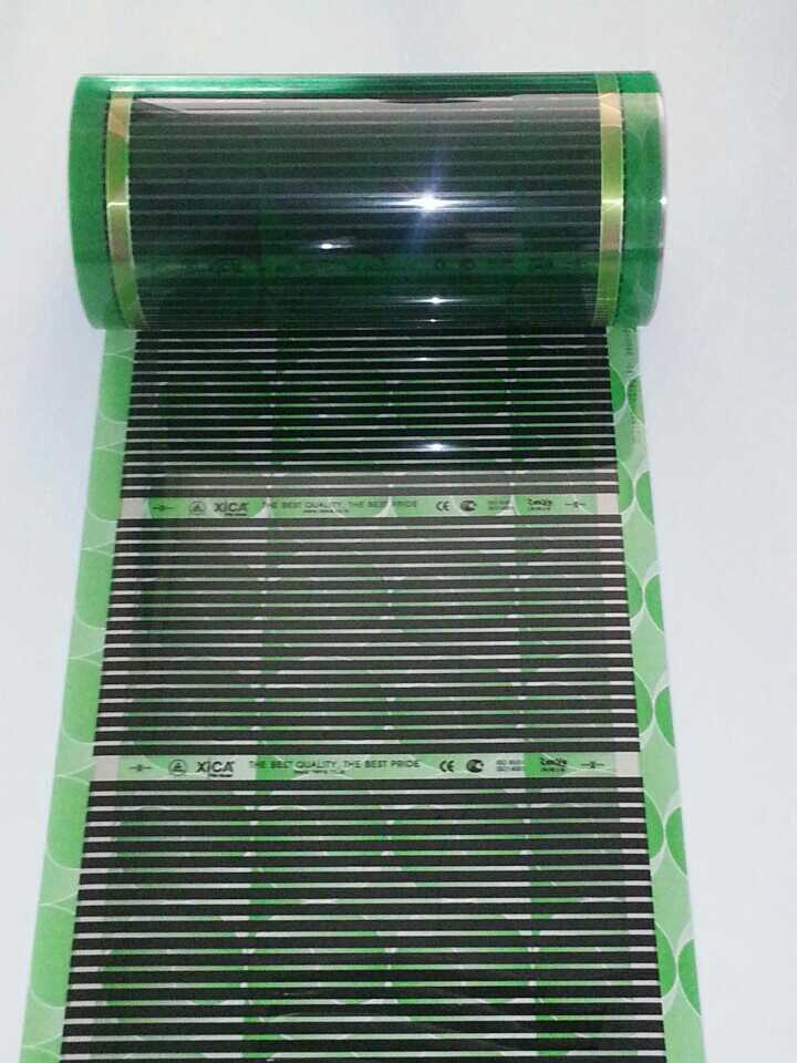 A commercial heating film model